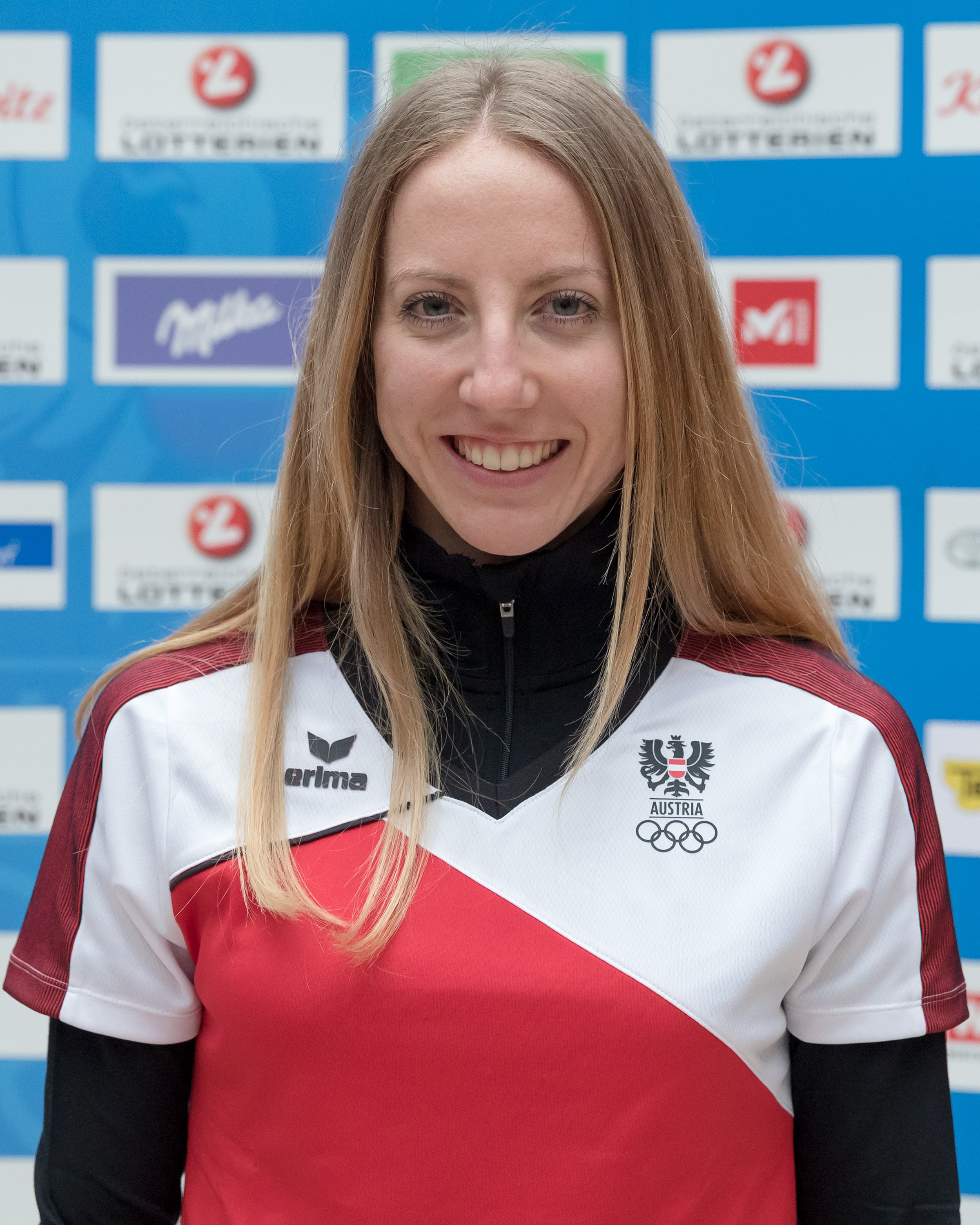 Teresa Stadlober at the outfitting of the Austrian team for the 2018 Winter Olympics (Hotel Marriott in Vienna, Austria.